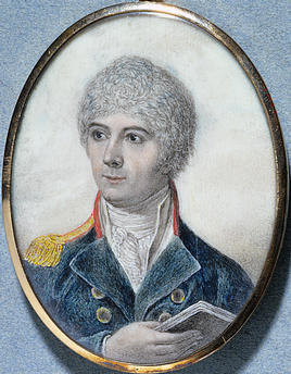 Portrait of Thomas Butts - water color on ivory - c. 1801 - The British Museum